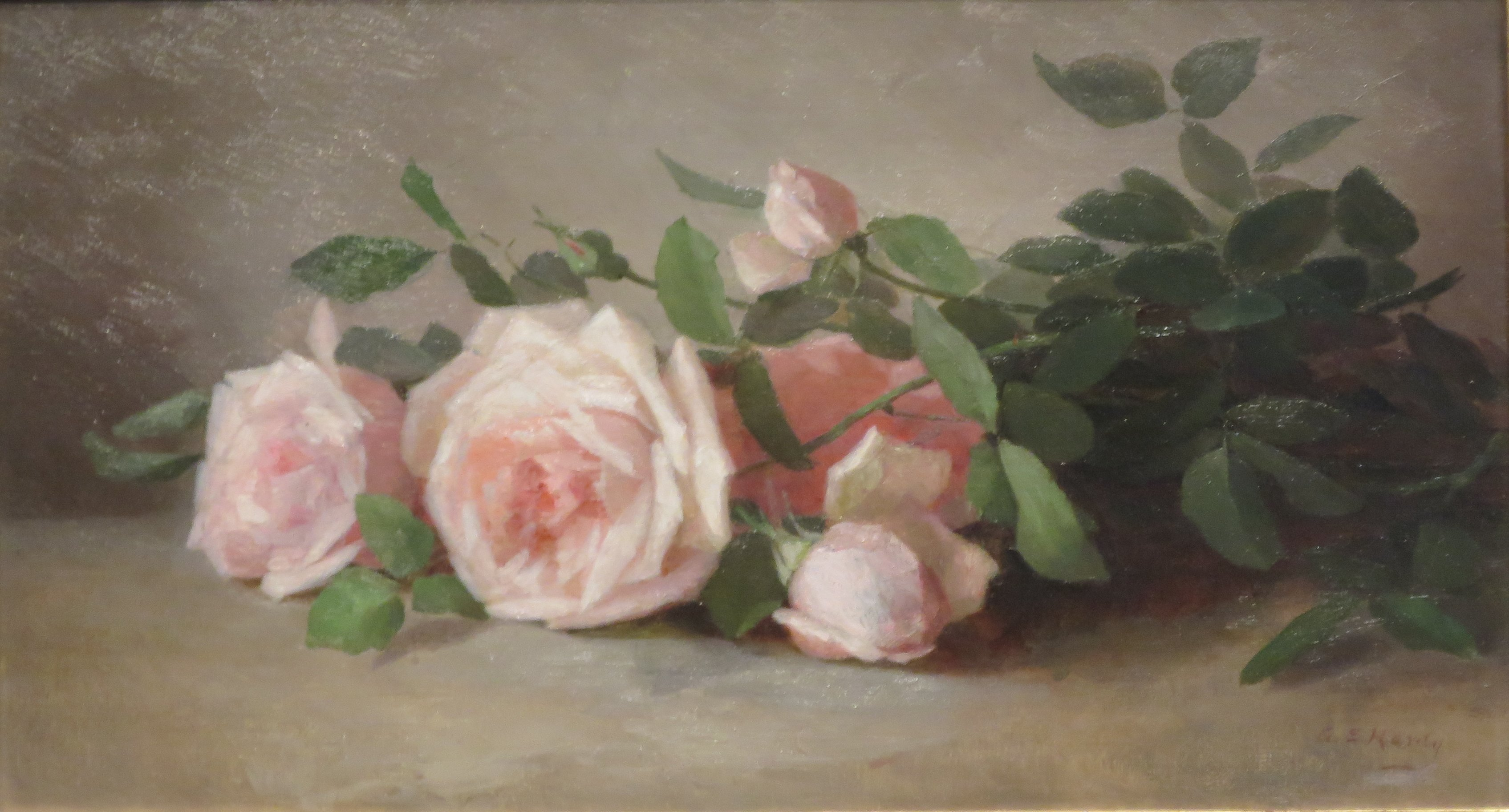 Anna Eliza Hardy – Still Life of Roses, c. 1880-90, oil on canvas, High Museum of Art